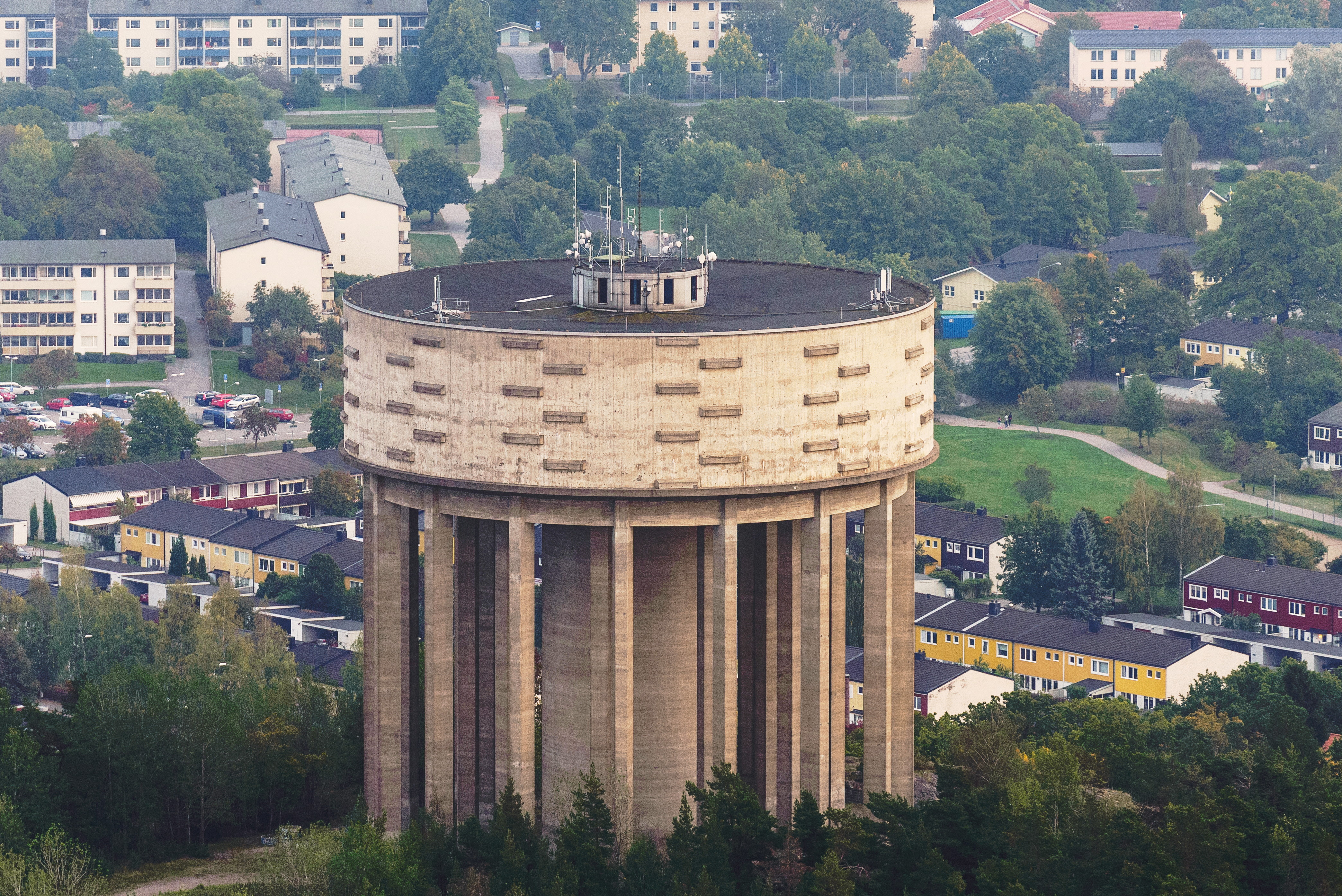 Bredäng.